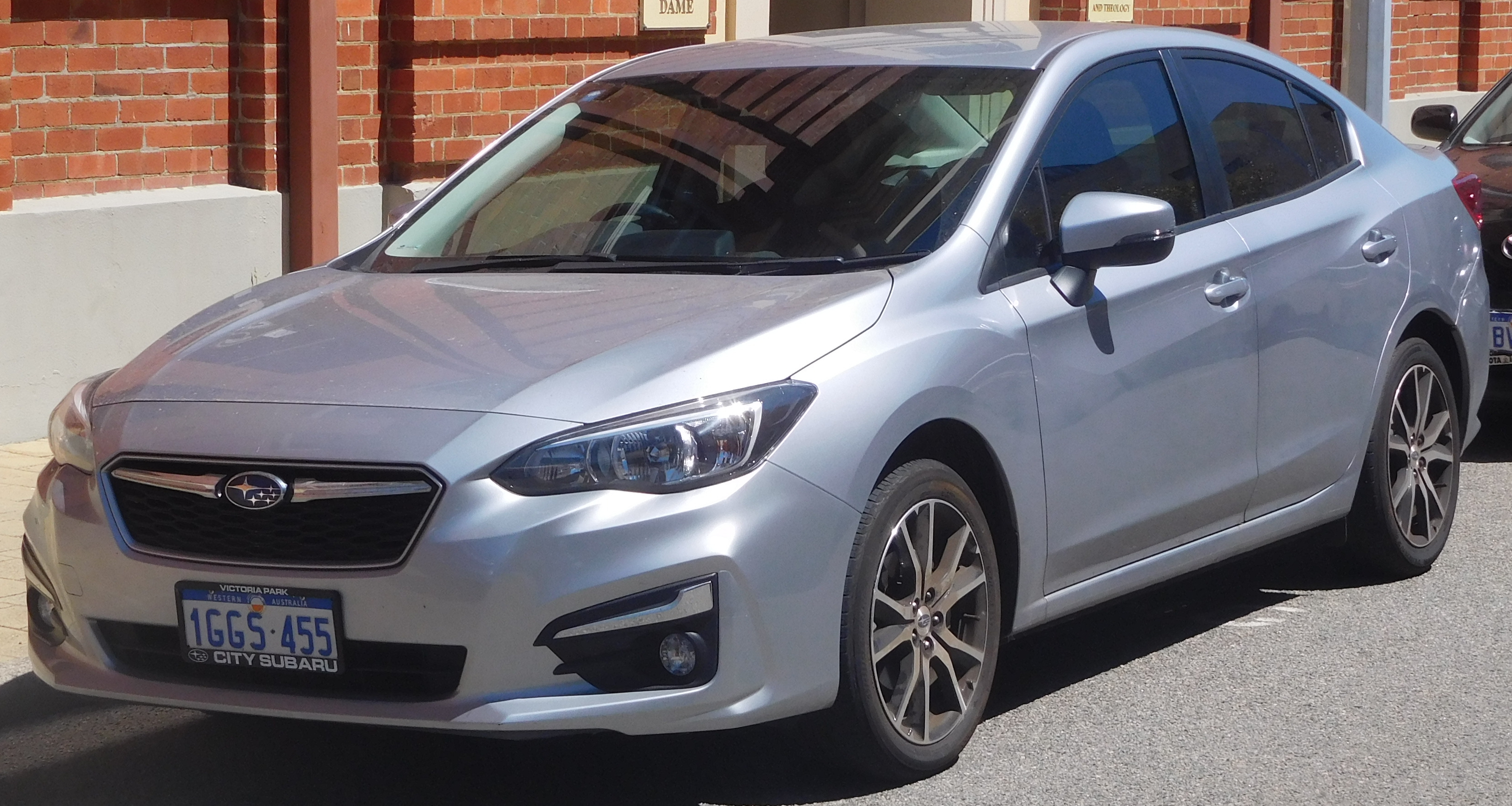 2017 Subaru Impreza (GK7) 2.0i-L sedan. Photographed in Fremantle, Western Australia, Australia.